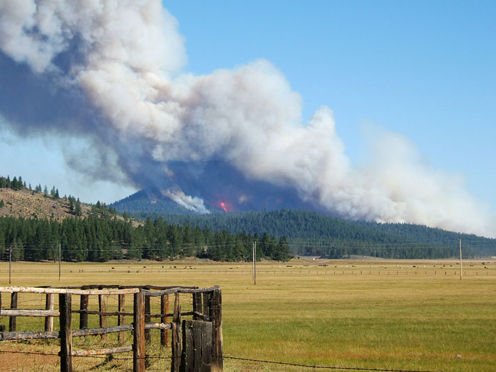 Moonlight Fire on first day: Monday, Sept. 3. As viewed from Highway 36.